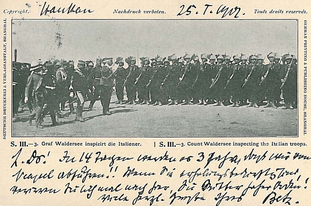 Historical postcard of China